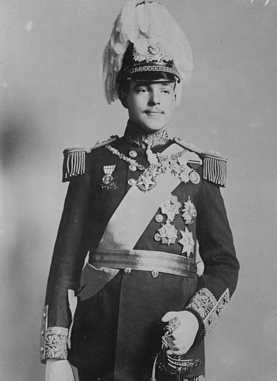 Manuel II, King of Portugal